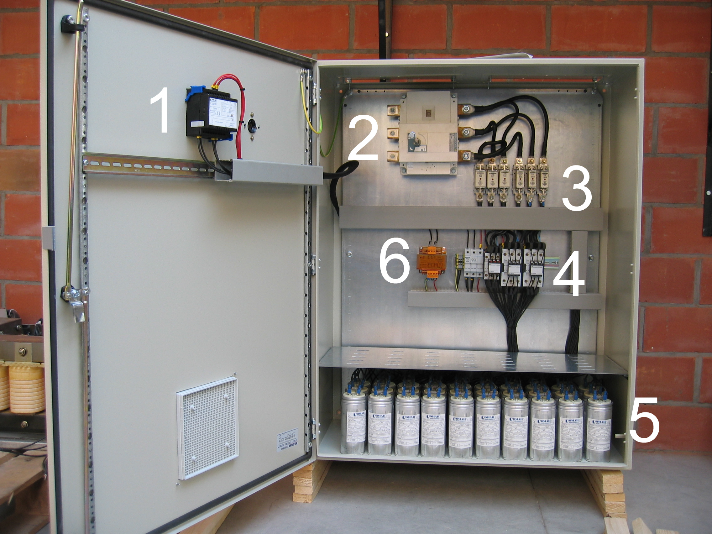 Power Factor Correction Unit. Automatic Capacitor Bank. Regulator Network connection points at the main switch Fuses Contactors, three of them for switching capacitors (IEC utilization category: AC-6b) Capacitors (single-phase units, delta-connection) Transformer 400/230 Volts for control power (contactors, ventilation,...)